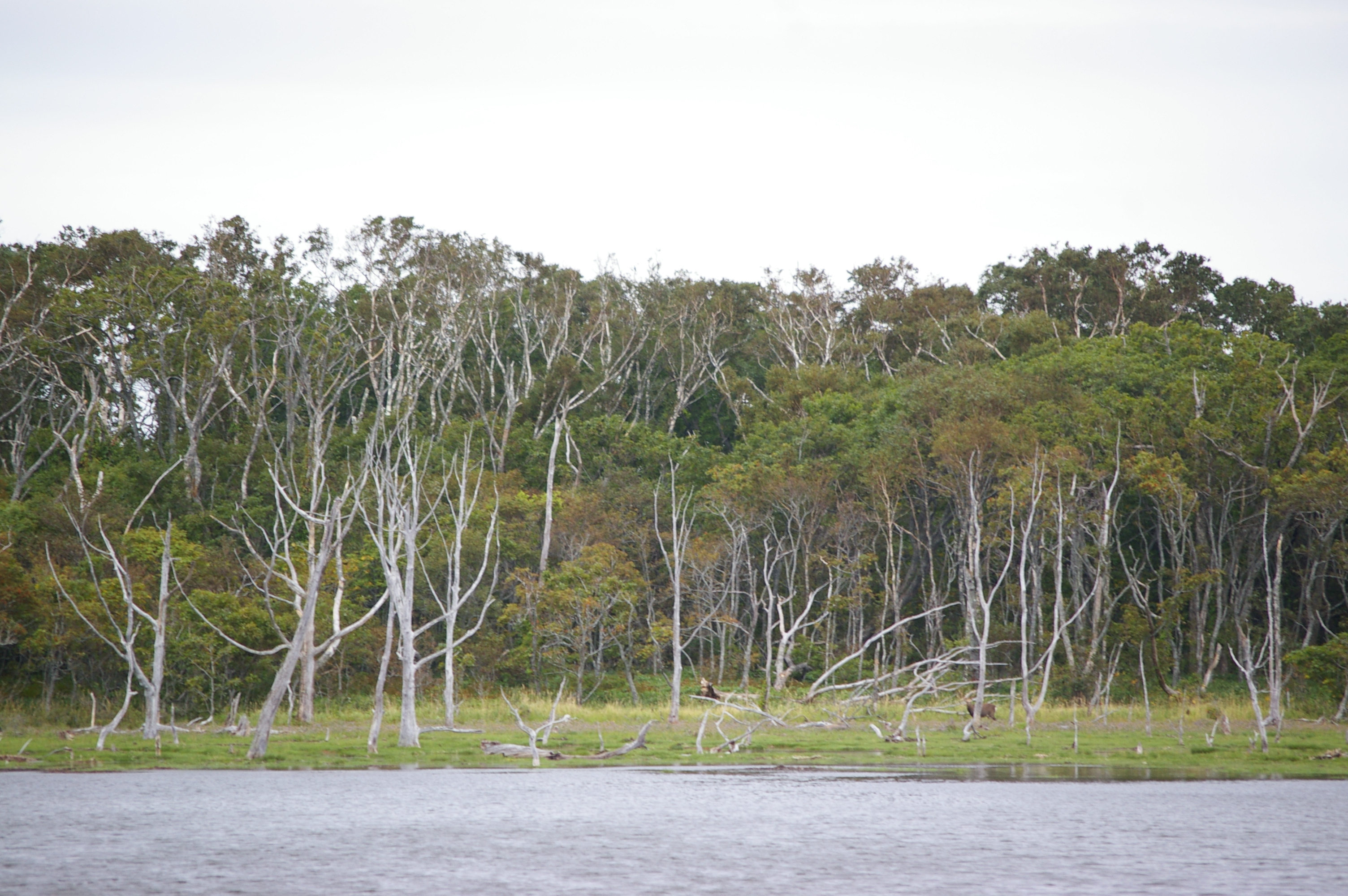 Withered Oak Trees in Notsuke peninsula, called "Nara-Wara"